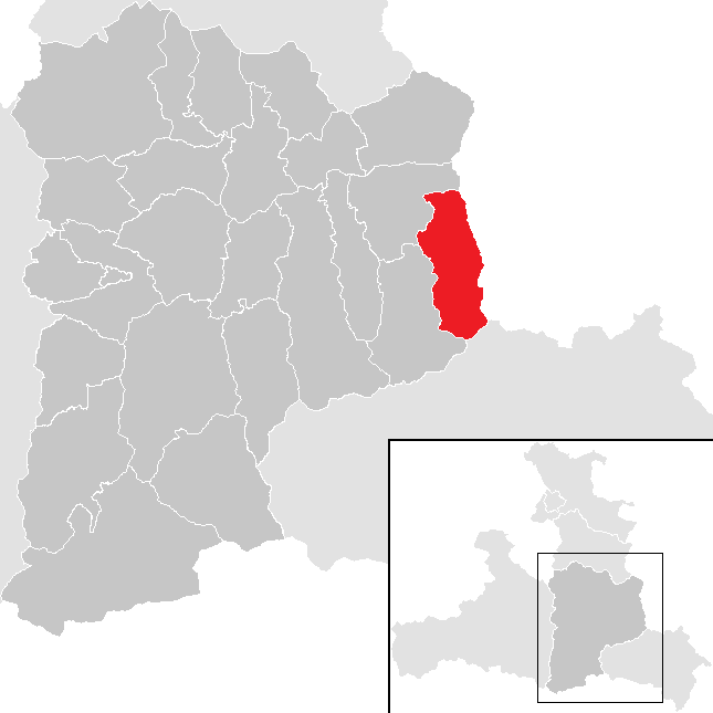 District Sankt Johann im Pongau